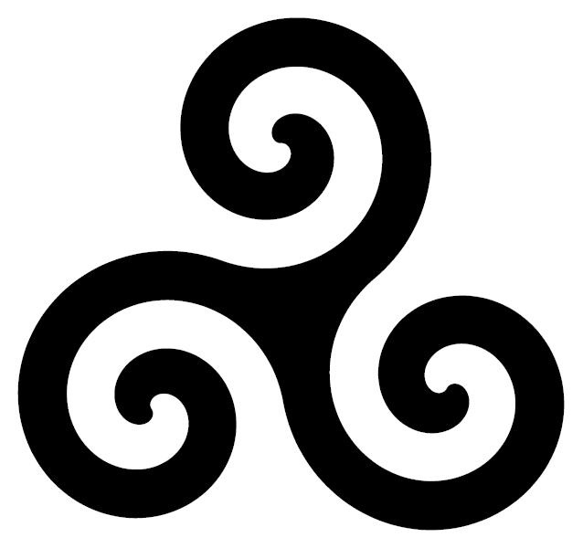 A spiral Triskelion symbol, constructed from mathematical Archimedean spirals. A less wound version of Image:Triskele-Symbol-spiral.png , with one and two thirds turns in each spiral, instead of two. For a more elaborate spiral triskelion symbol (with three turns), see Image:Triple-Spiral-Symbol-filled.png, and for the most elaborate version, see Image:Triple-Spiral-Symbol-4turns-filled.png. For a basic triple-spiral, see Image:Triple-Spiral-Symbol.png, and for "wheeled" forms of the spiral triskelion/triple spiral symbol, see Image:Wheeled-Triskelion-basic.png , Image:Roissy triskelion iron ring signet.png , Image:Triple-spiral-wheeled-simple.png , or Image:Triskelion-spiral-threespoked-inspiral.png . For a spiral triskelion with a hollow triangle in the center, see Image:Triskele-hollow-triangle.png . For a partial tesselation of similar shapes, see Image:Triskele-quasi-tesselation.svg .